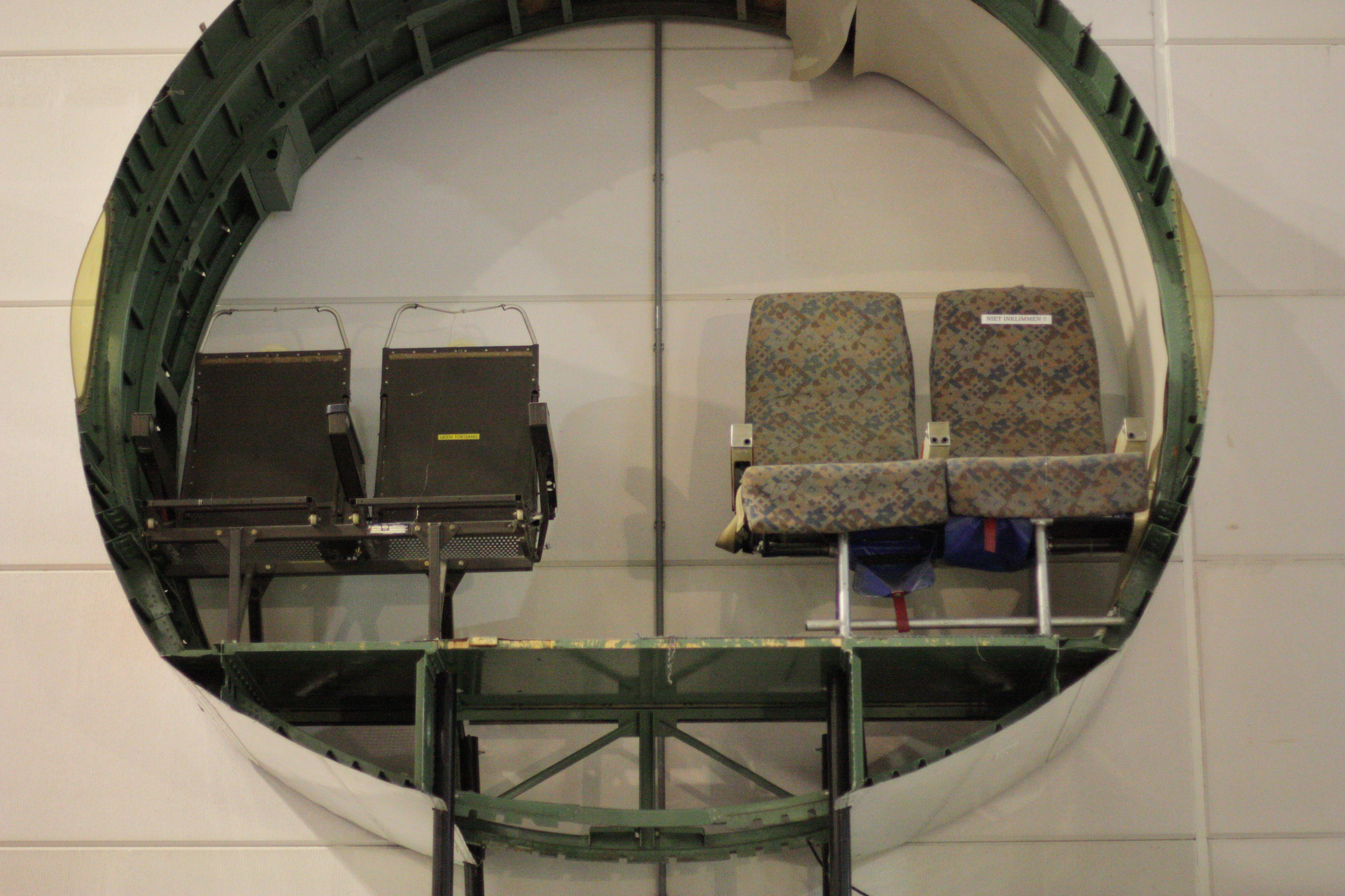 Lelystad Flugsimulatorwochenende, bei Amsterdam, November 2009; Flight Simulation conference at Aviodrome Lelystad